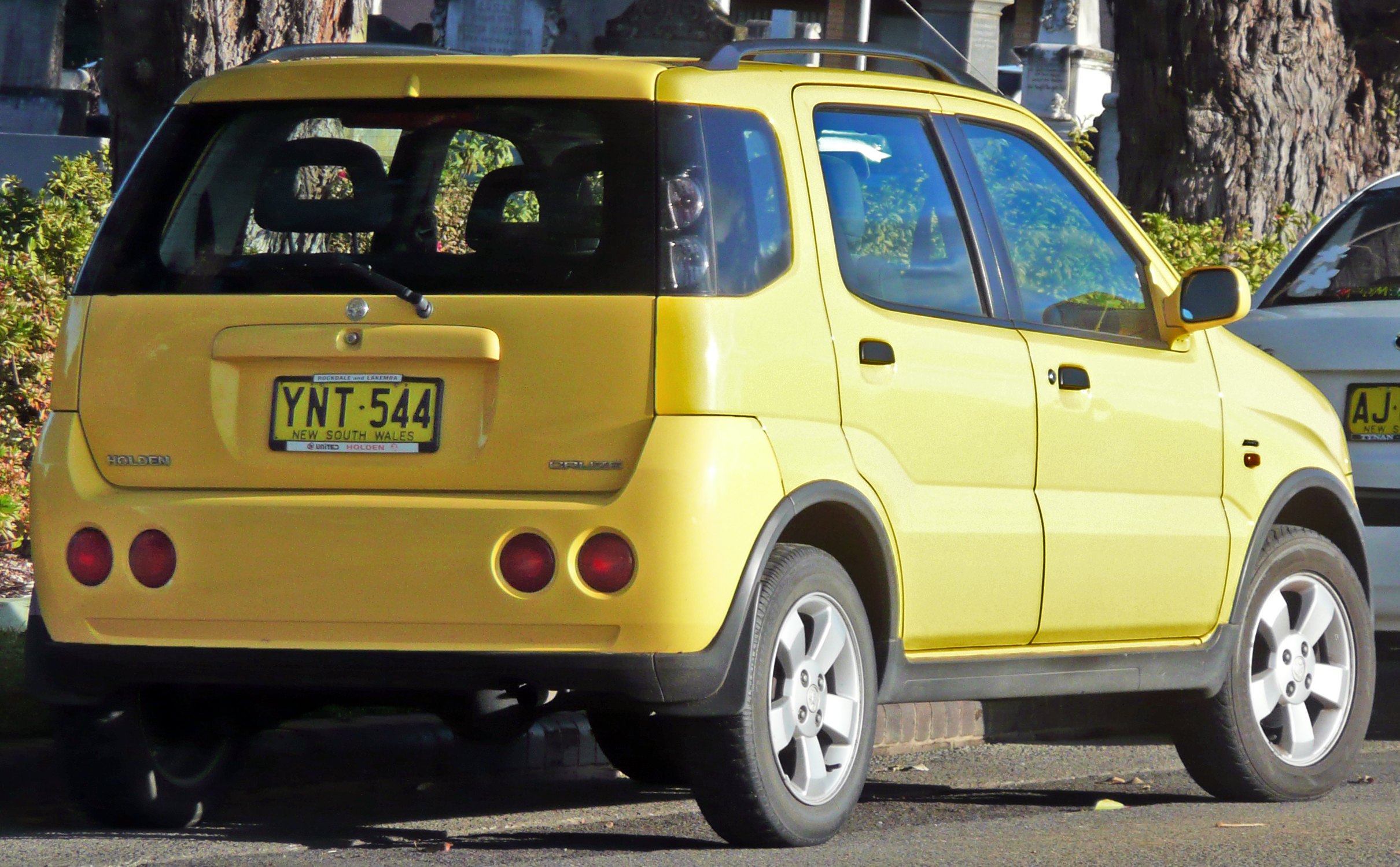 2002 Holden Cruze (YG) wagon. Photographed in Sutherland, New South Wales, Australia.